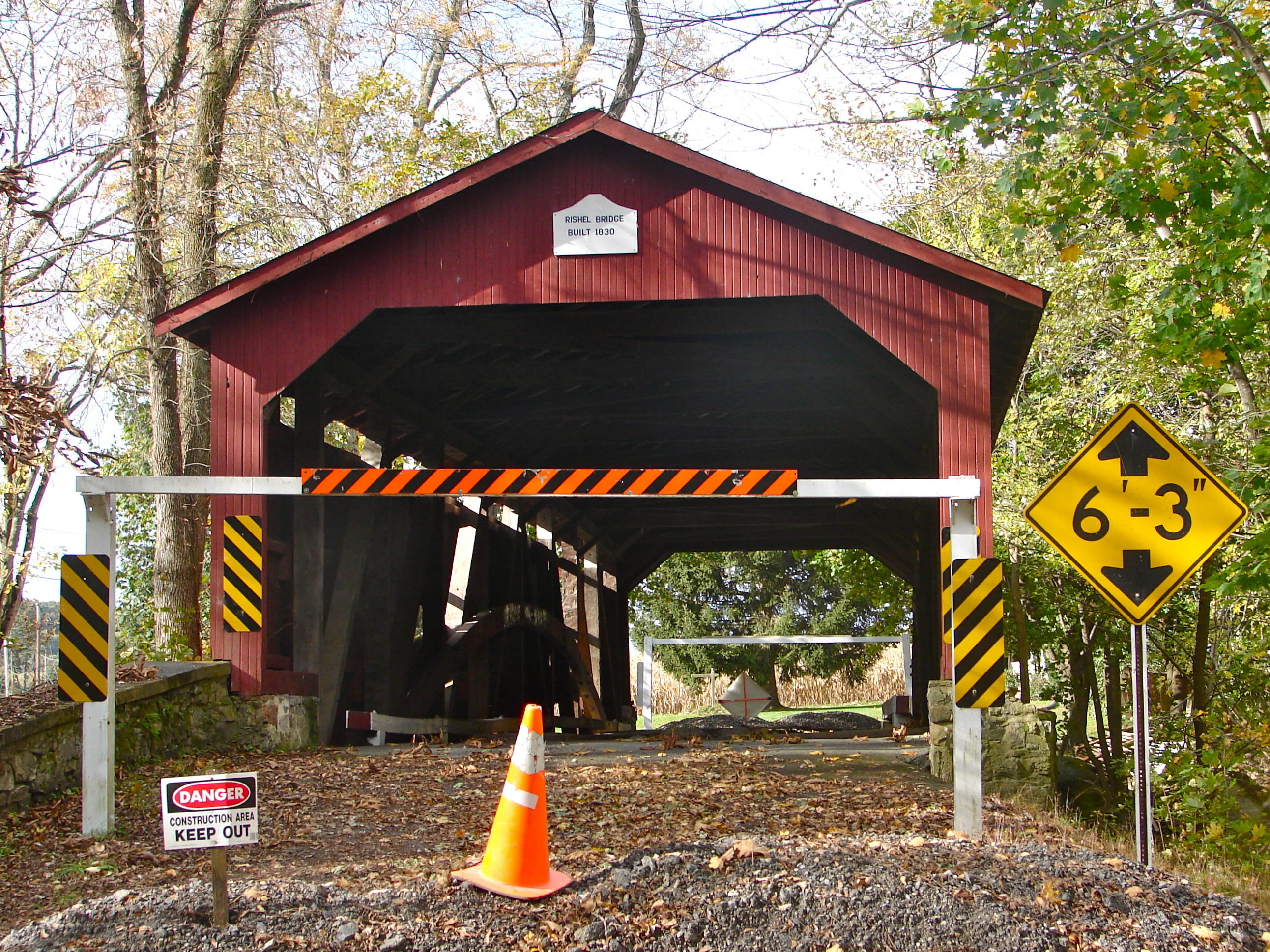 Rishel Covered Bridge on the NRHP since August 8, 1979. Located east of Montandon on Township 573. Crosses the border of East and West Chillisquaque Townships, Northumberland County, PA